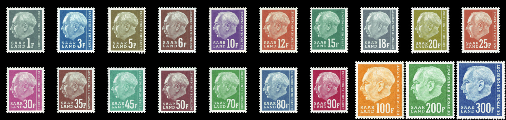 Saarland stamp series (II) of Theodor Heuss, president of Germany